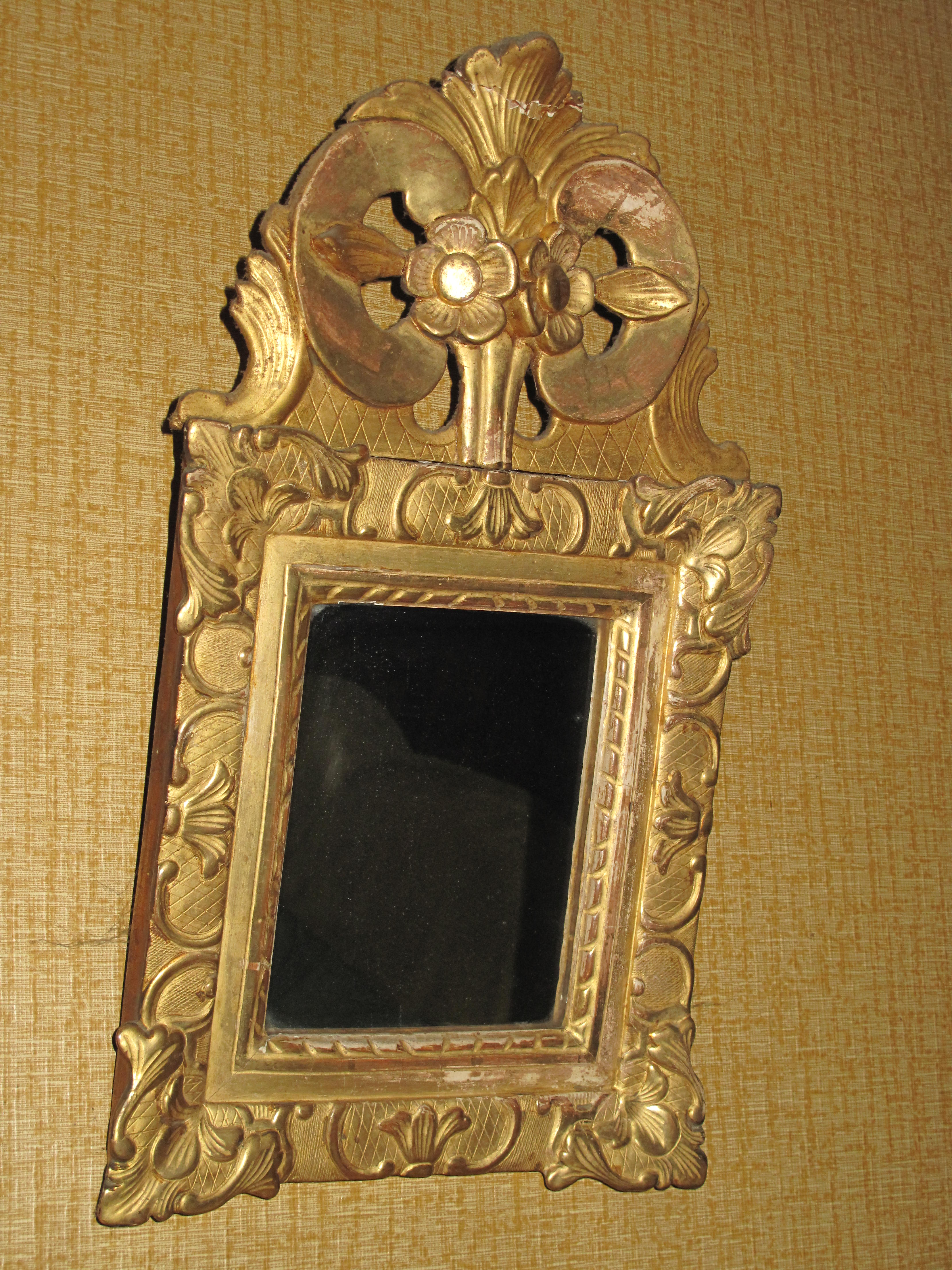 Mirror on wall with golden frame, France.